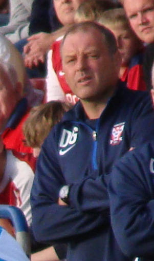 Darron Gee. Image cropped from original at flickr.